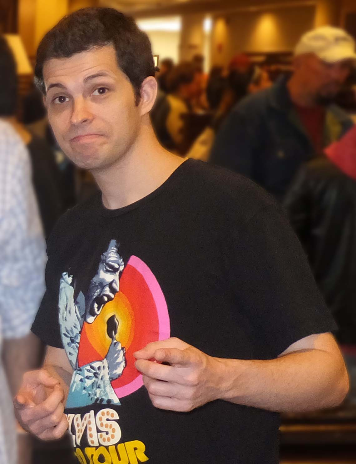 Cropped image of Mike Matei ORIGINAL File:Rolfe-expo-2013.jpg